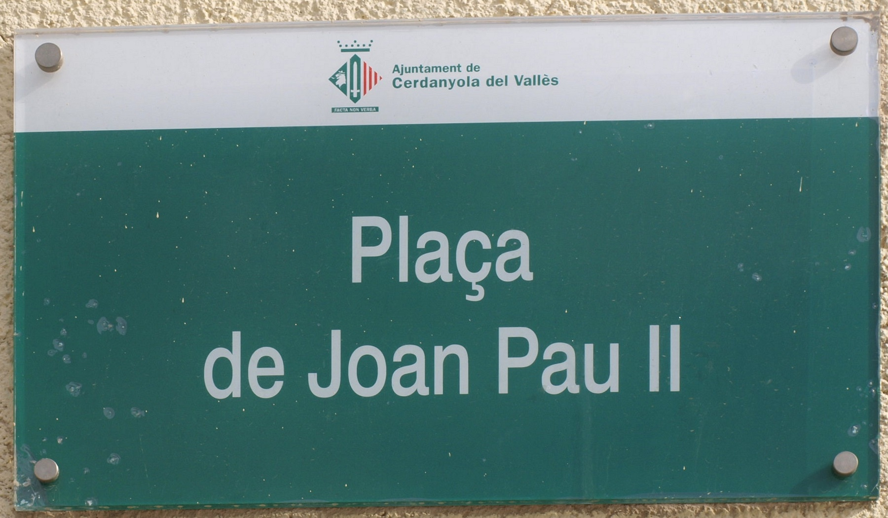 municipality of Cerdanyola del Vallès, Rectoria de Sant Martí